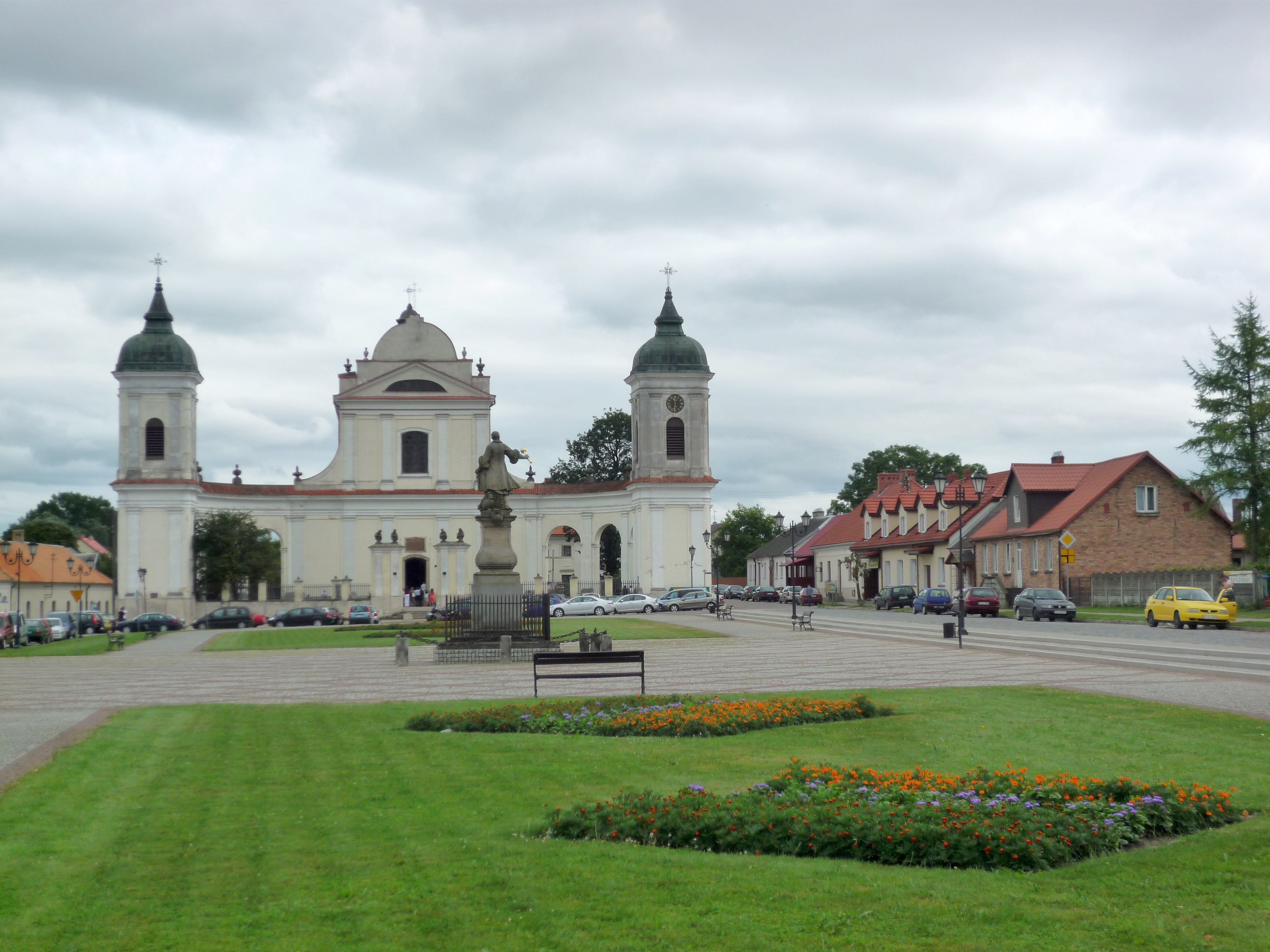 Tykocin - the square and the Holy Trinity church